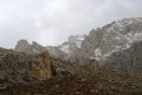 Demirkazık Mountain.